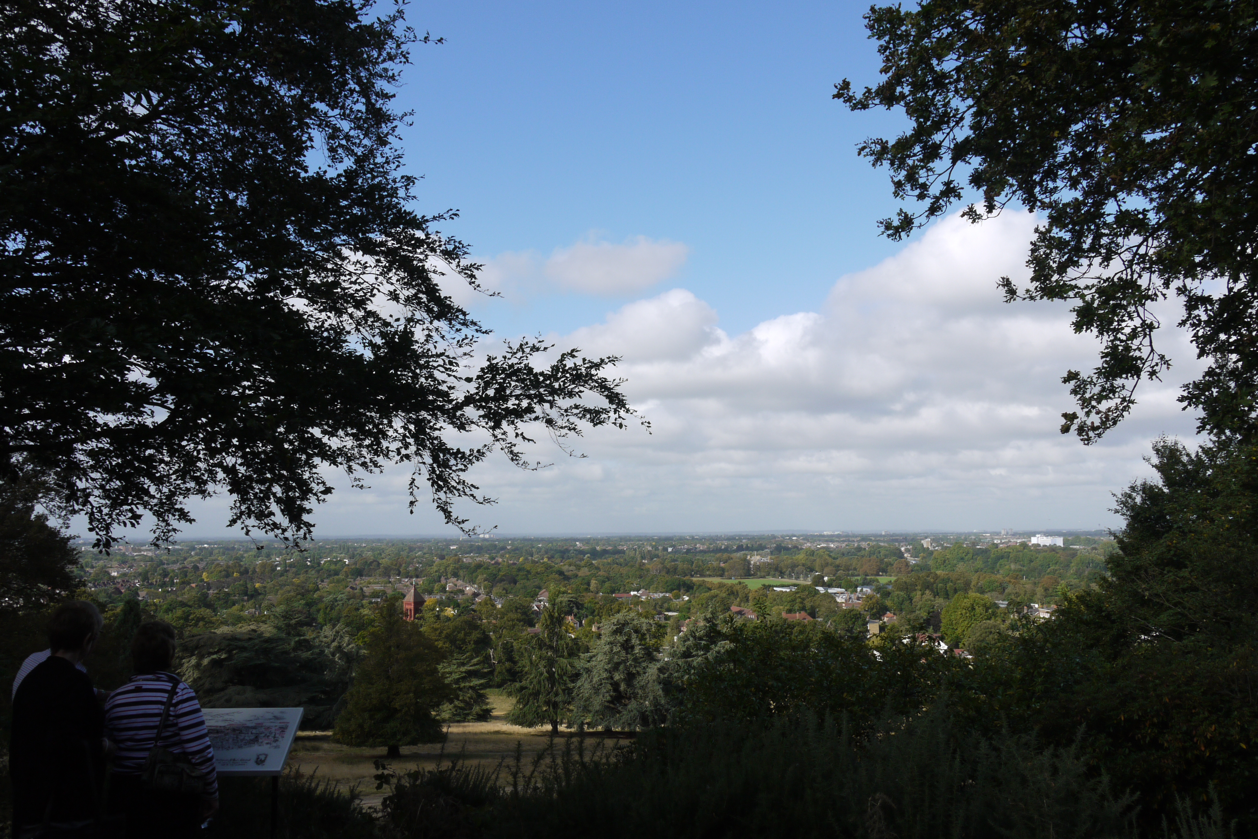 View from King Henry's mound, Richmond Park, looking west.